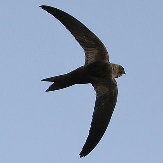 African Swift (Apus barbatus), nominate race, taken at Milnerton, Cape Town